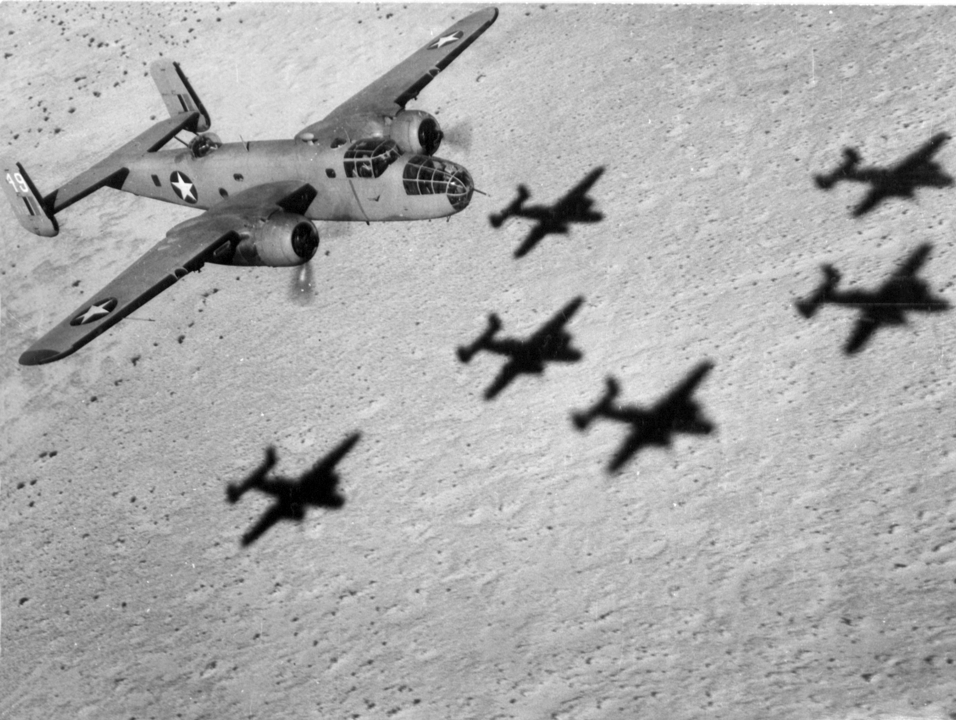 B-25 Mitchell of the USAAF 12th Bombardment Group